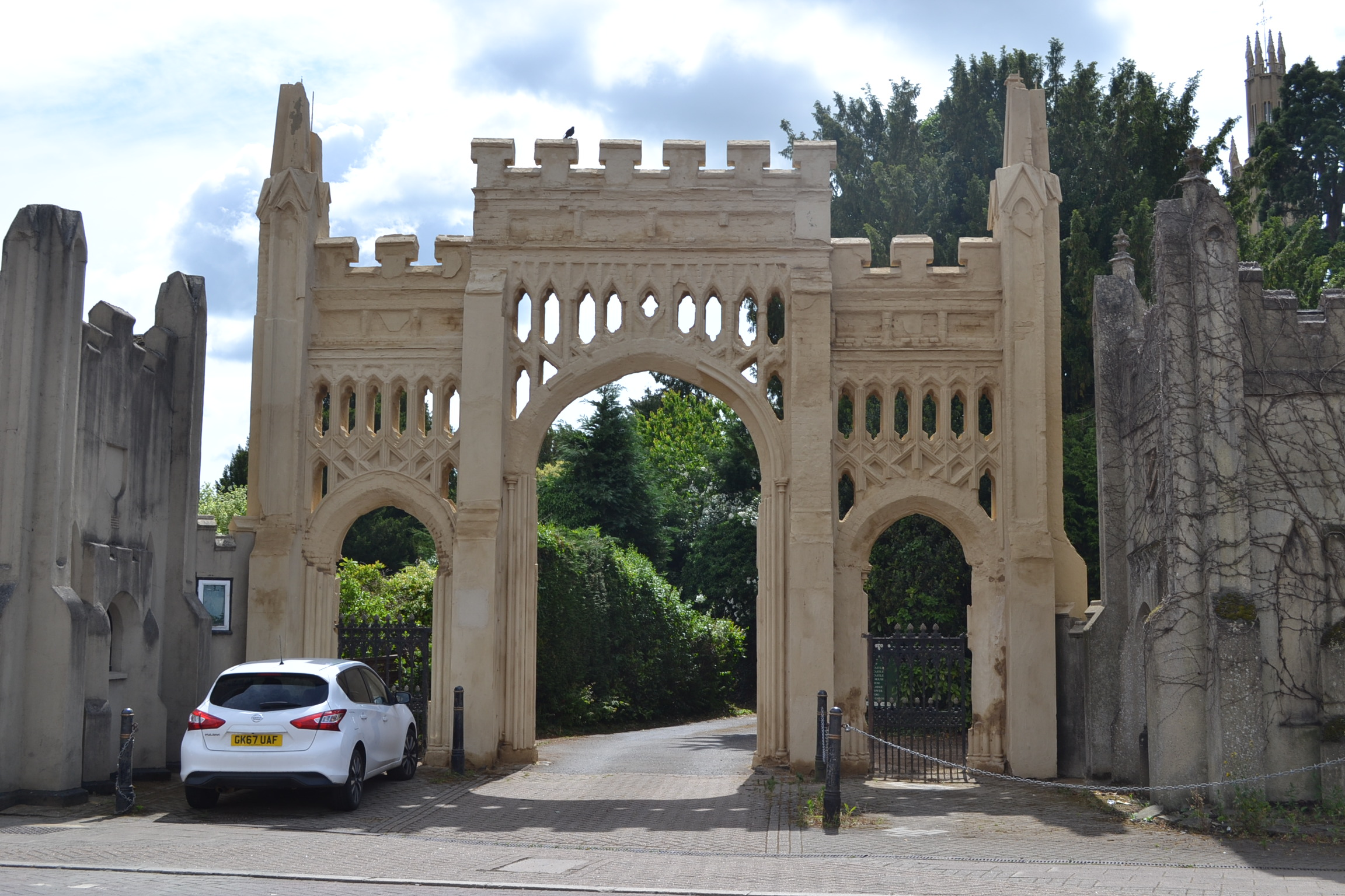 The newly-restored gatehouse to Hadlow Castle, Kent.